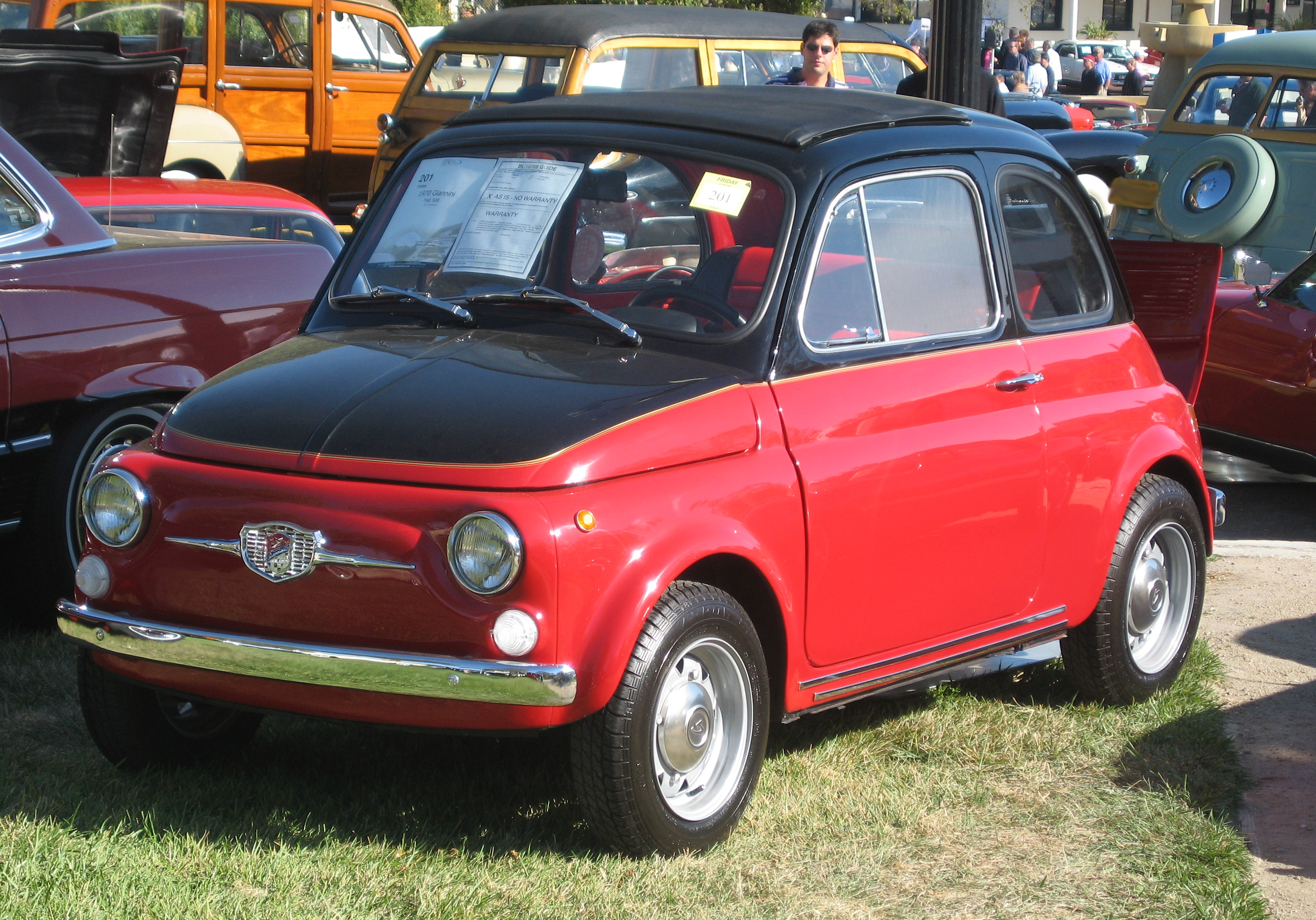 1970 Giannini Fiat 500 at the 2006 RM Auctions in Monterey, CA